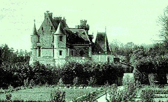 Le Clerc, castle, Écos, Le Chesnay-Haguest Normandie Famille Le Clerc